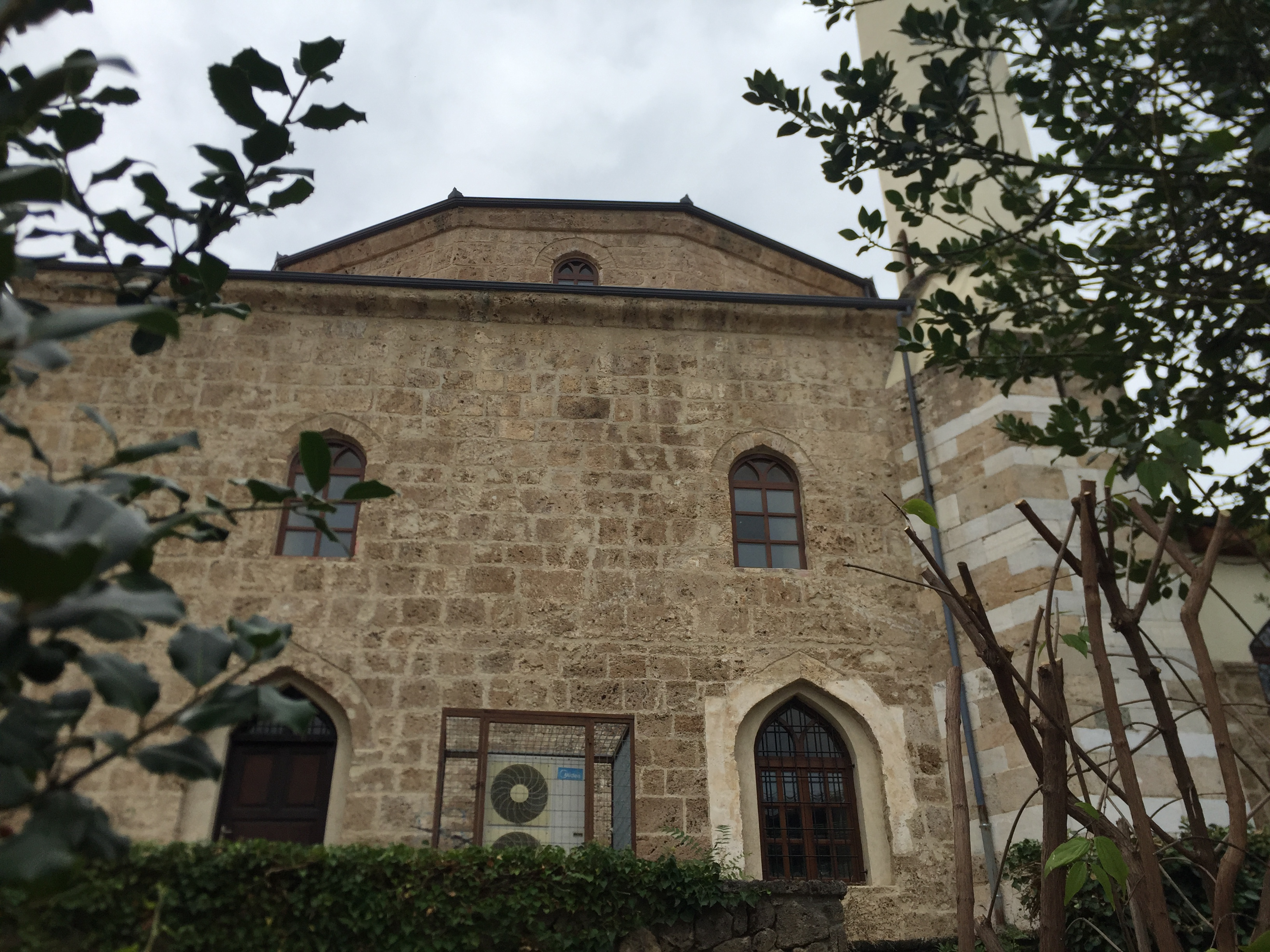 Medresse Mosque«Ορτά Τζαμί»